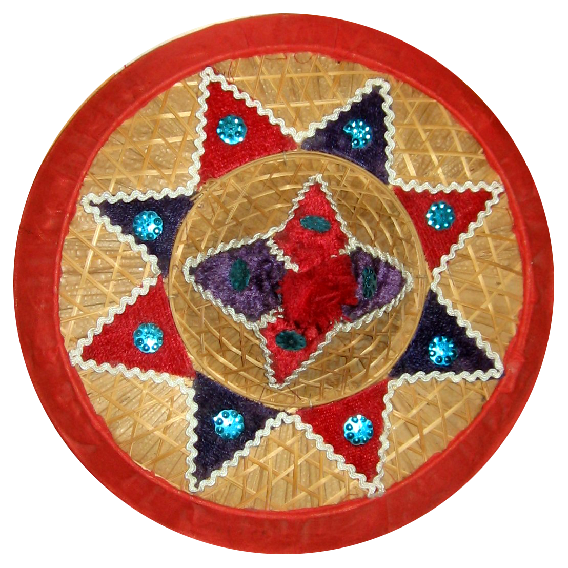 A Sarudaya Jaapi, a traditional Assamese headgear or hat of Assam, India.অসমীয়া: সৰুদৈয়া জাপি